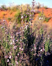 Poliomintha incana NPS photo